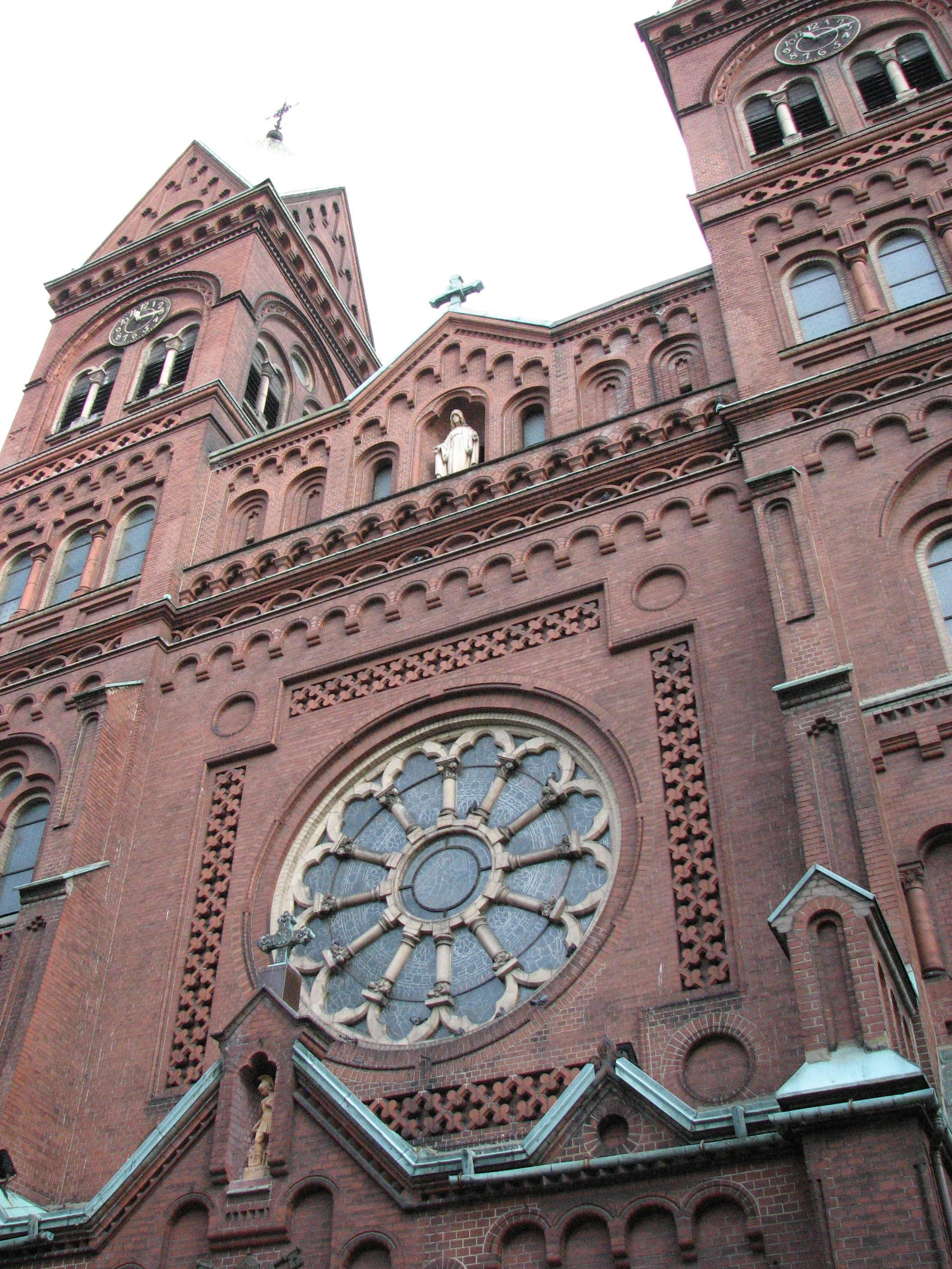 The facade of the Basilica in Katowice Panewniki, Poland.